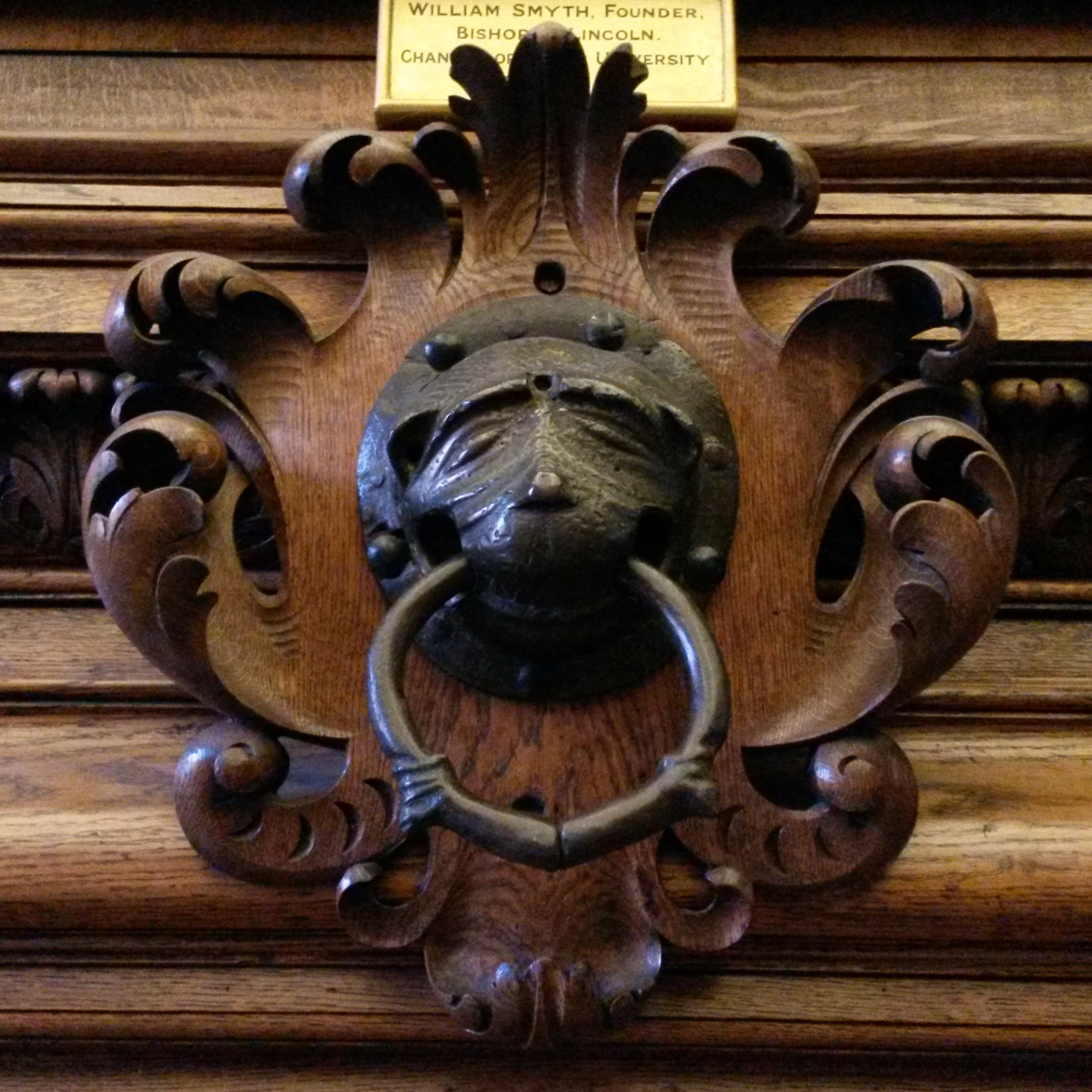 The door knocker after which Brasenose College, Oxford is said to be named. Removed from Brasenose Hall in 1333 and taken to Stamford, Lincolnshire, it was returned to the college in 1890 and now hangs in the dining hall.